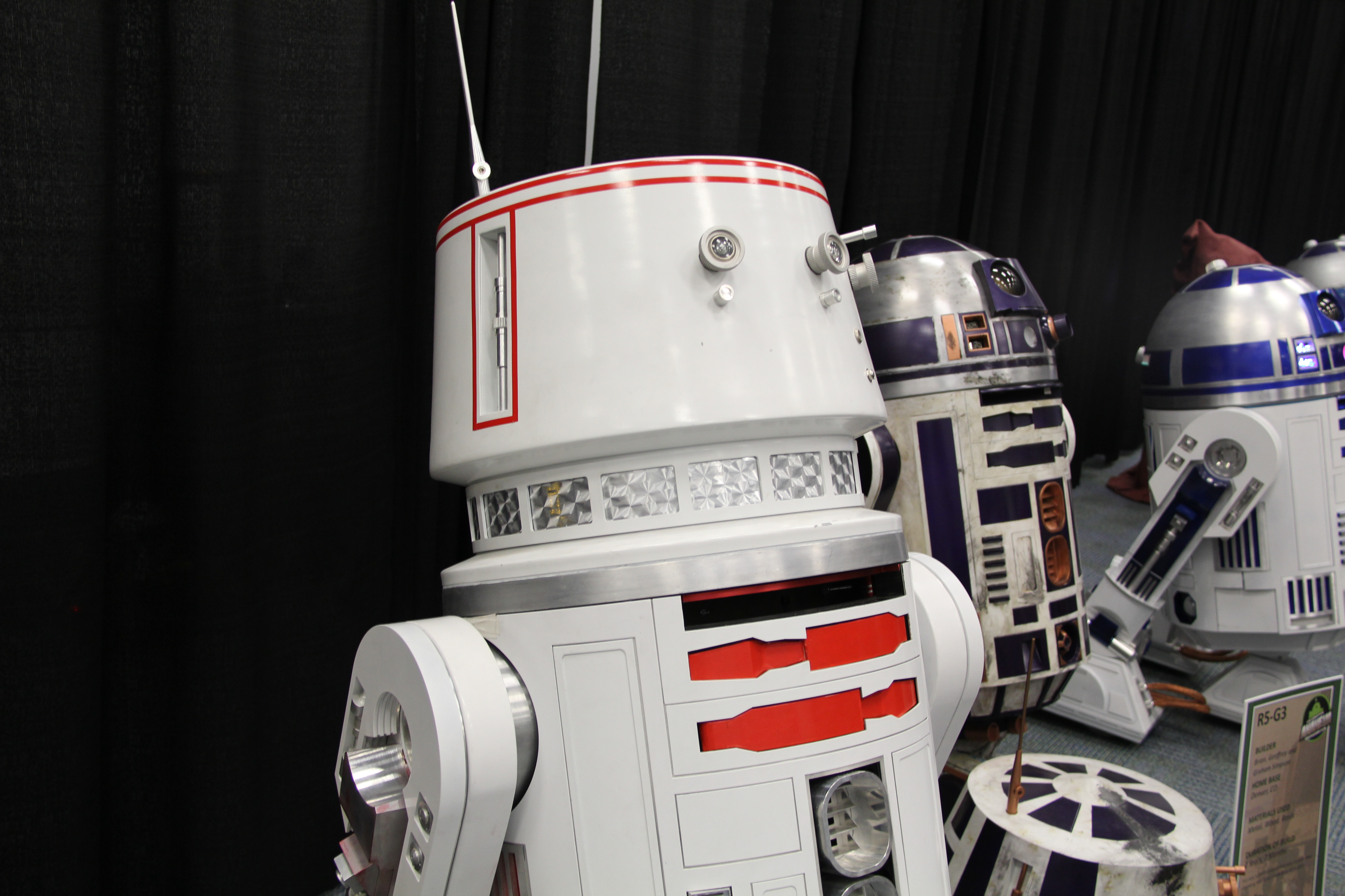 SWCA - From Droid Builder's Club Room [10] Star Wars Celebration in Anaheim, April 2015.